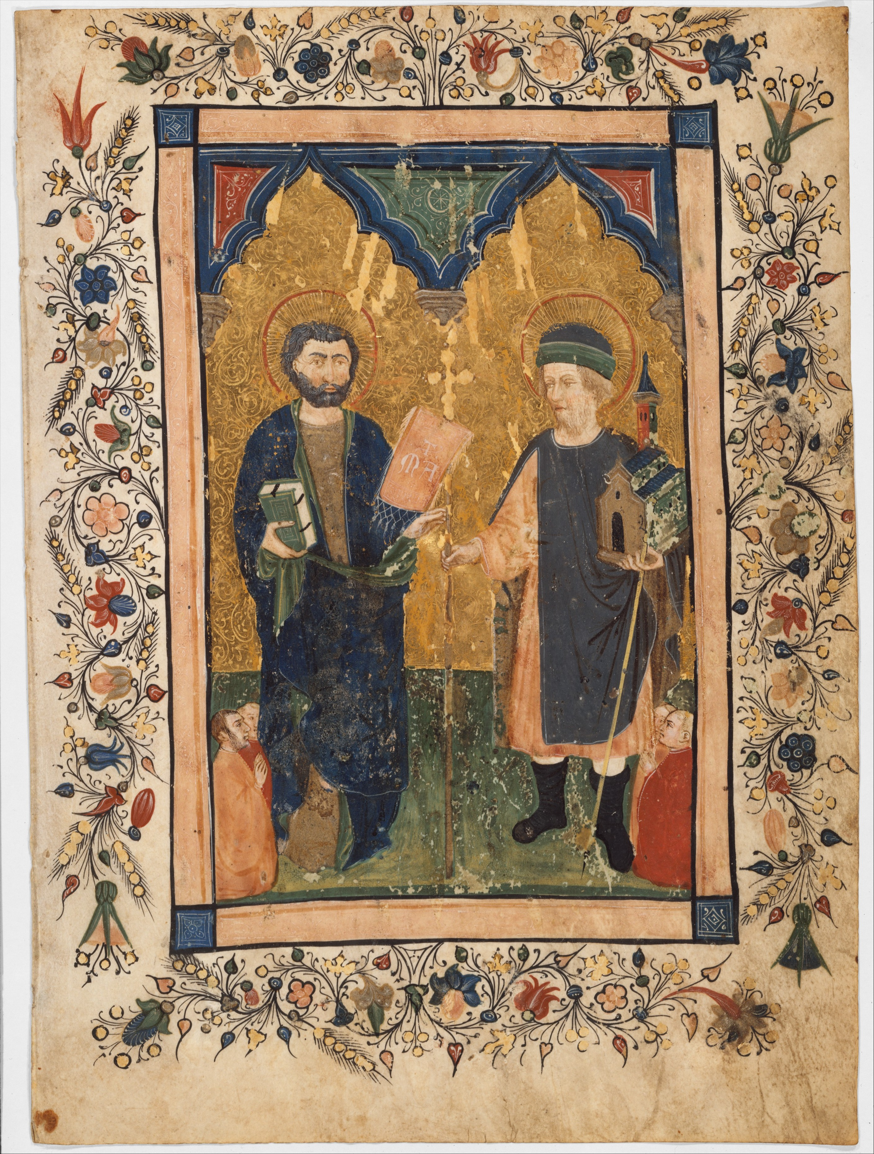 Leaf from a mariegola; Manuscripts and Illuminations